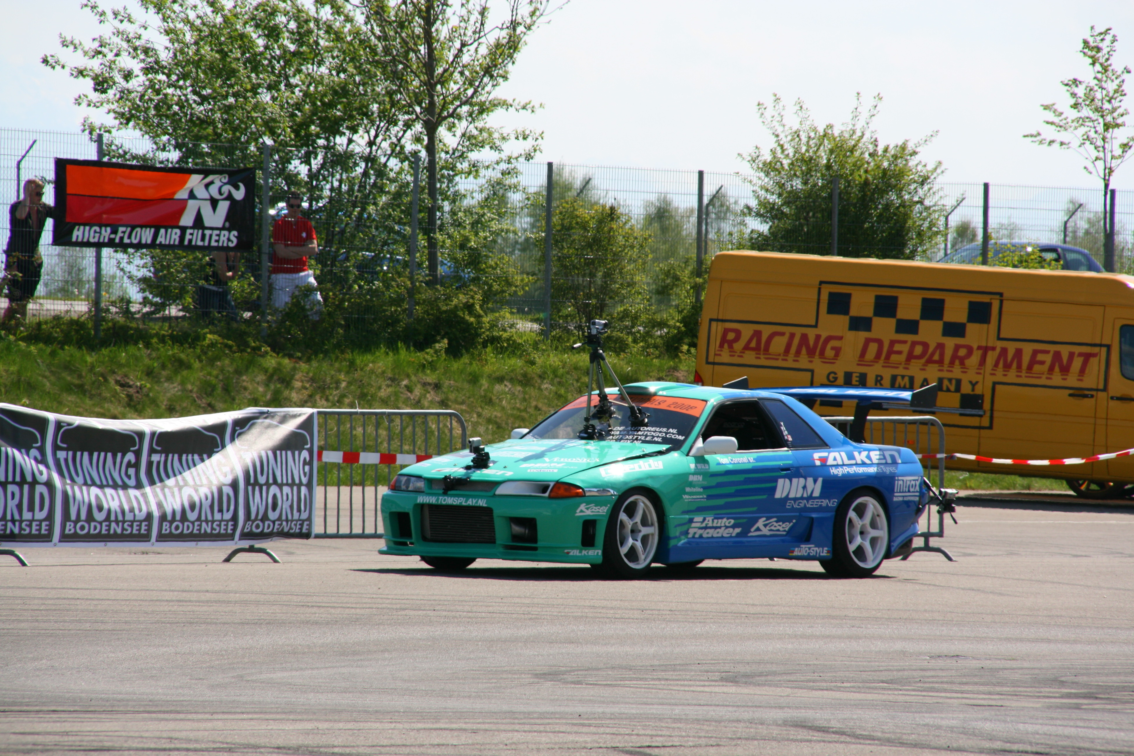 Nissan Skyline GT-R BNR32 GT-R with attached Camera at the Tuning World Bodensee 2008